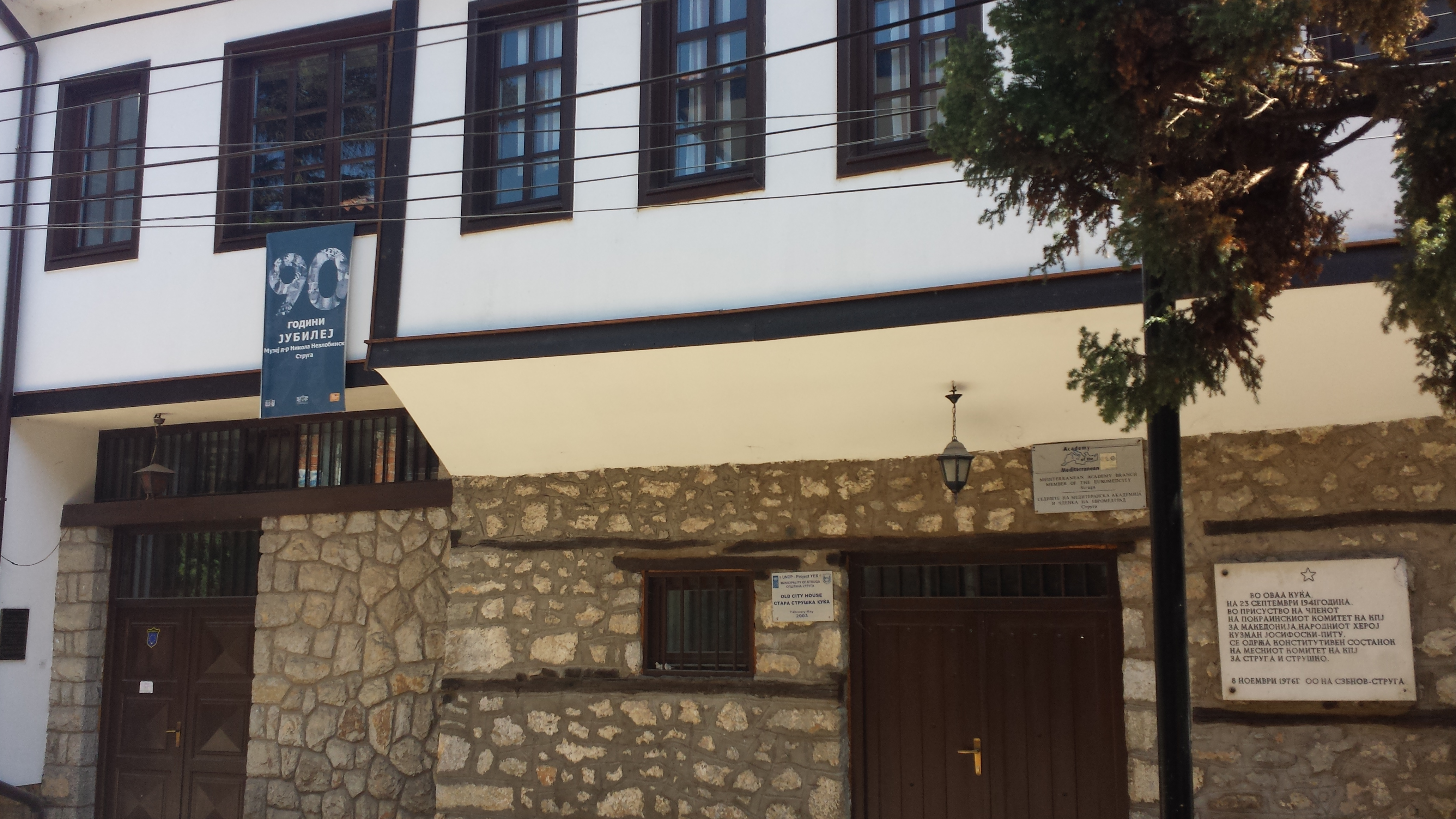 Old Struga House